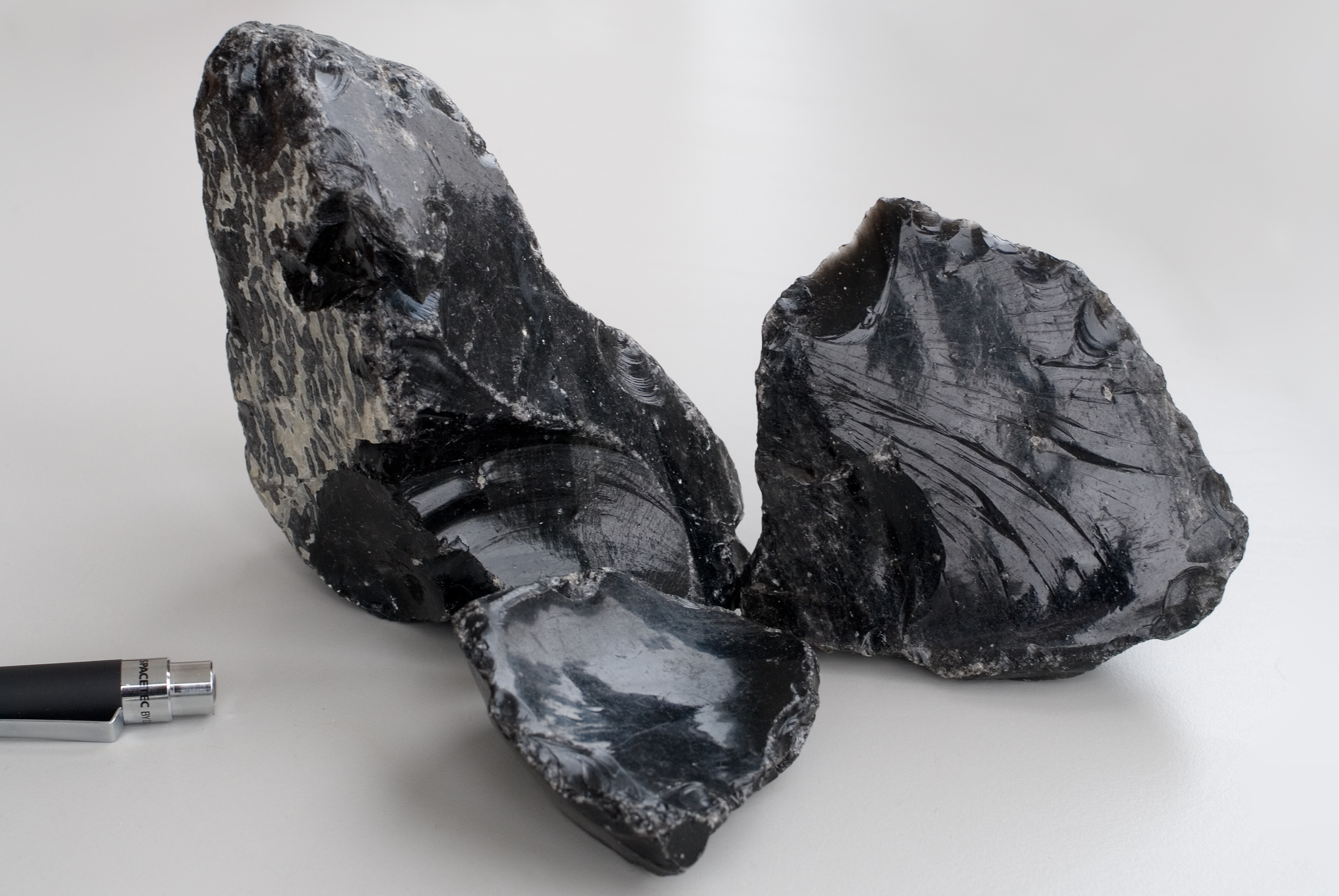 Hand Pieces of Obsidian with typical conchoidal fractures and sharp edges